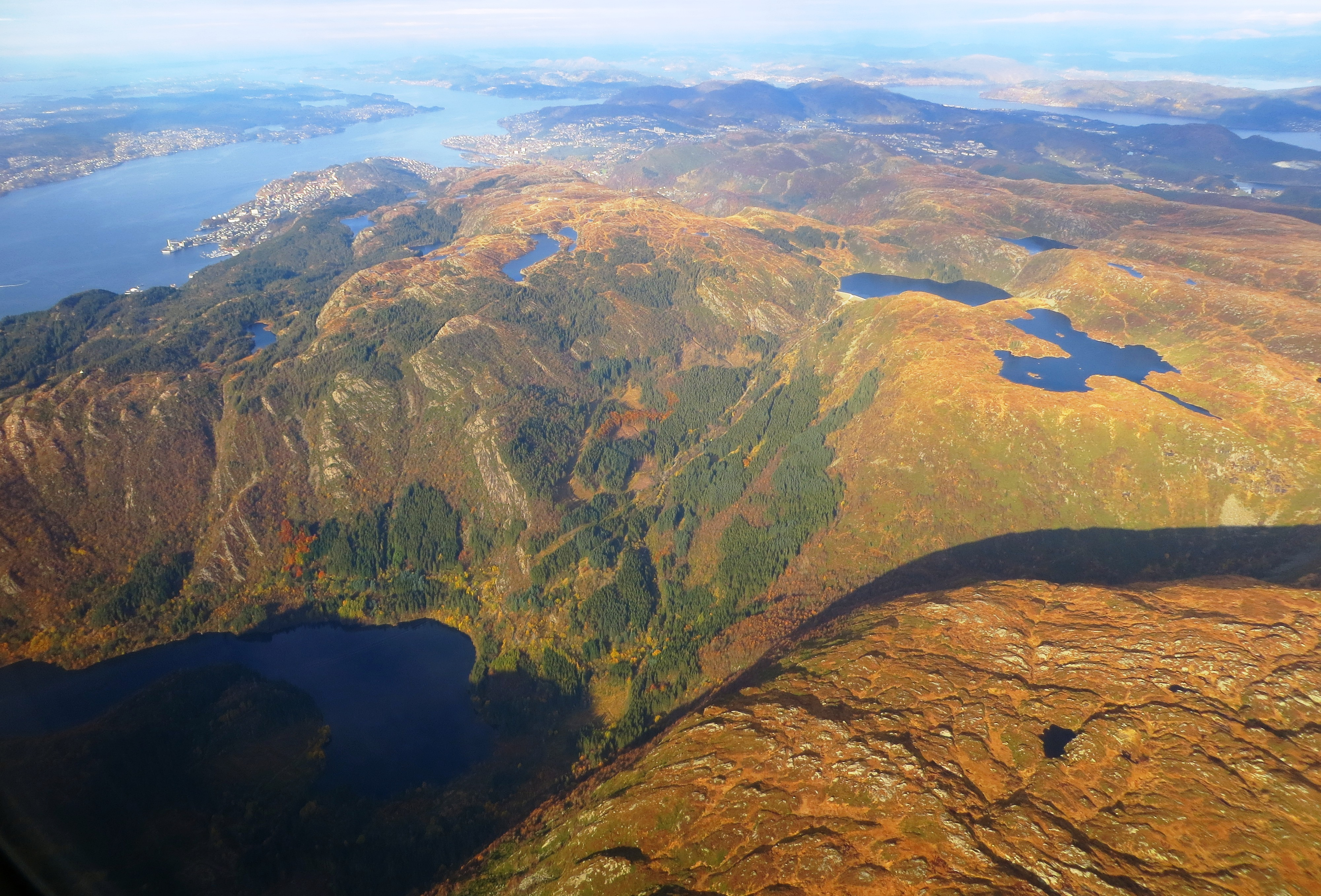 The mountaneous area immediately west of central Bergen, Hordaland (Norway).